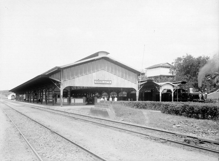 The railway station of Kedoeng Djatti, Java